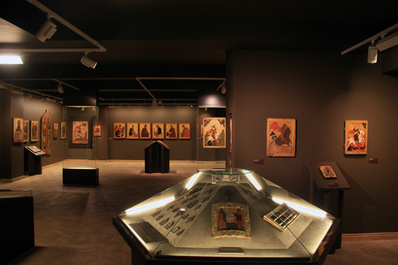 "Russian iconography of the 14-16 centuries" Hall in the Museum of the Russian icon (Moscow, Russia).